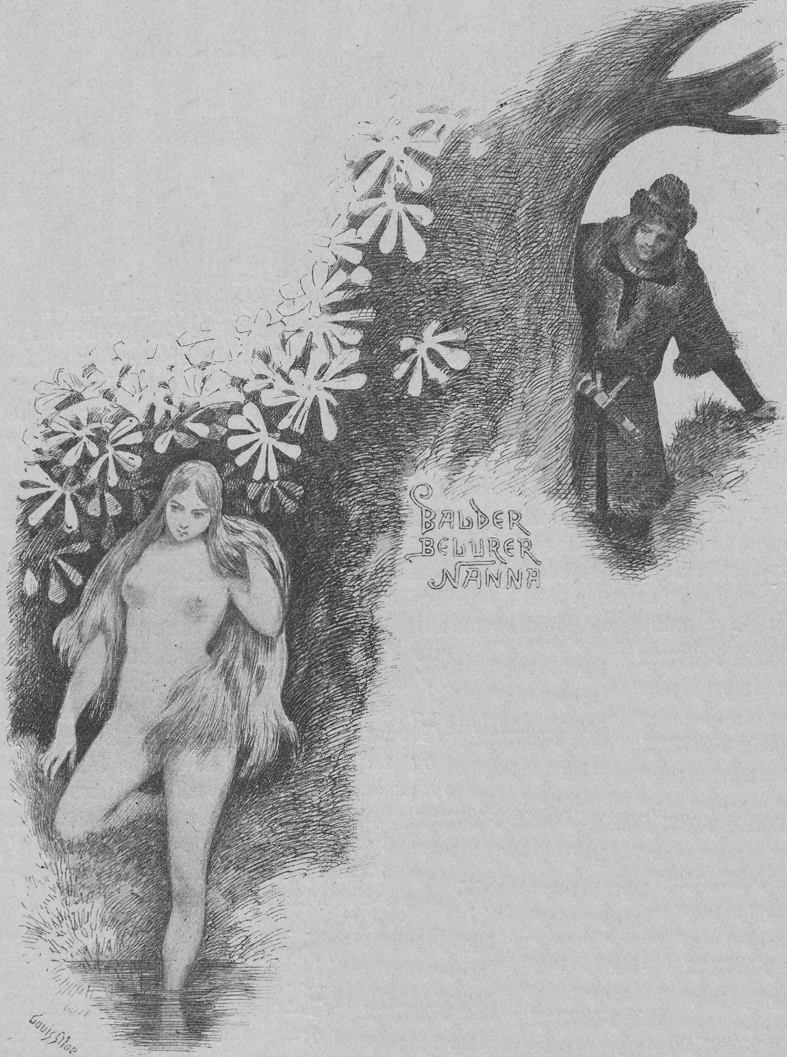 Balder belurer Nanna. The scene is described in Gesta Danorum in the following way: "Now it befell that Balder the son of Odin was troubled at the sight of Nanna bathing, and was seized with boundless love. He was kindled by her fair and lustrous body, and his heart was set on fire by her manifest beauty; for nothing exciteth passion like comeliness."Elton's translation